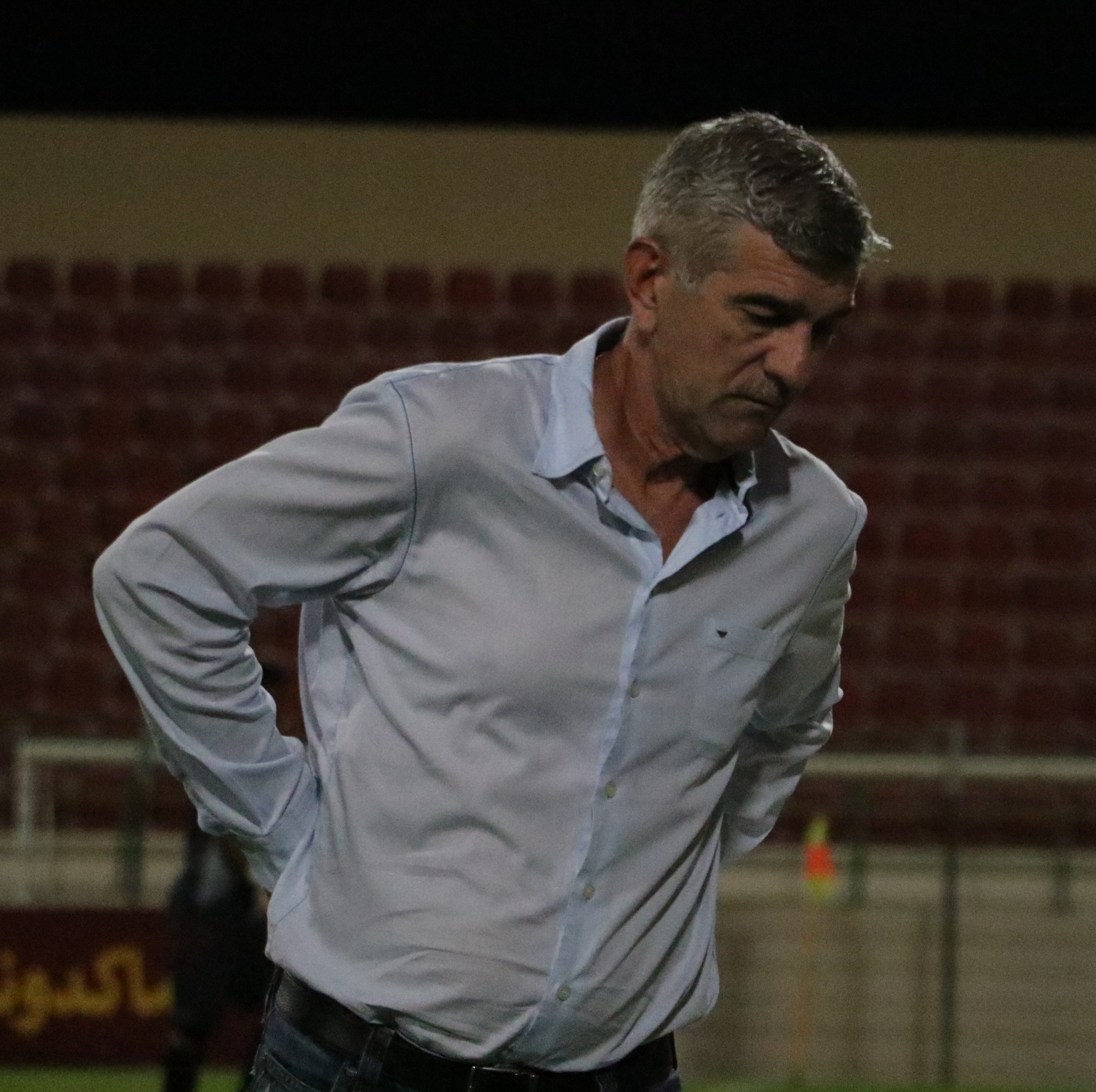 Branko Smiljanić in a match against Al Nasr of Salalah 21 March 2015 Al Saada Stadium, Salalah Photographer email id